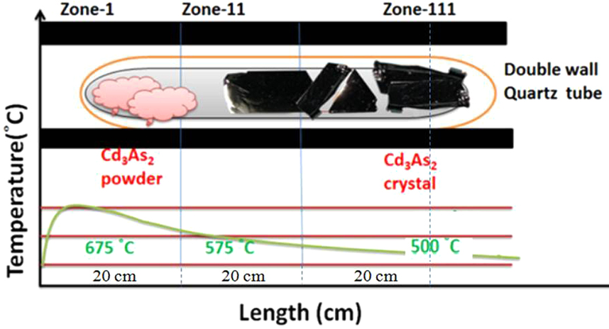 Cross-sectional side view of an alumina furnace used for self-selecting vapor growth of a Cd3As2 single crystal. The positions of the ampoule in which transport takes place and the temperature profile of the furnace for Cd3As2 growth are shown.